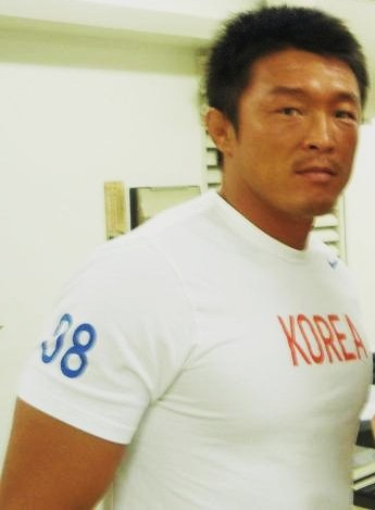 Photo of Yoshihiro Akiyama taken at the South Korean embassy in Tokyo, Japan in August 2009